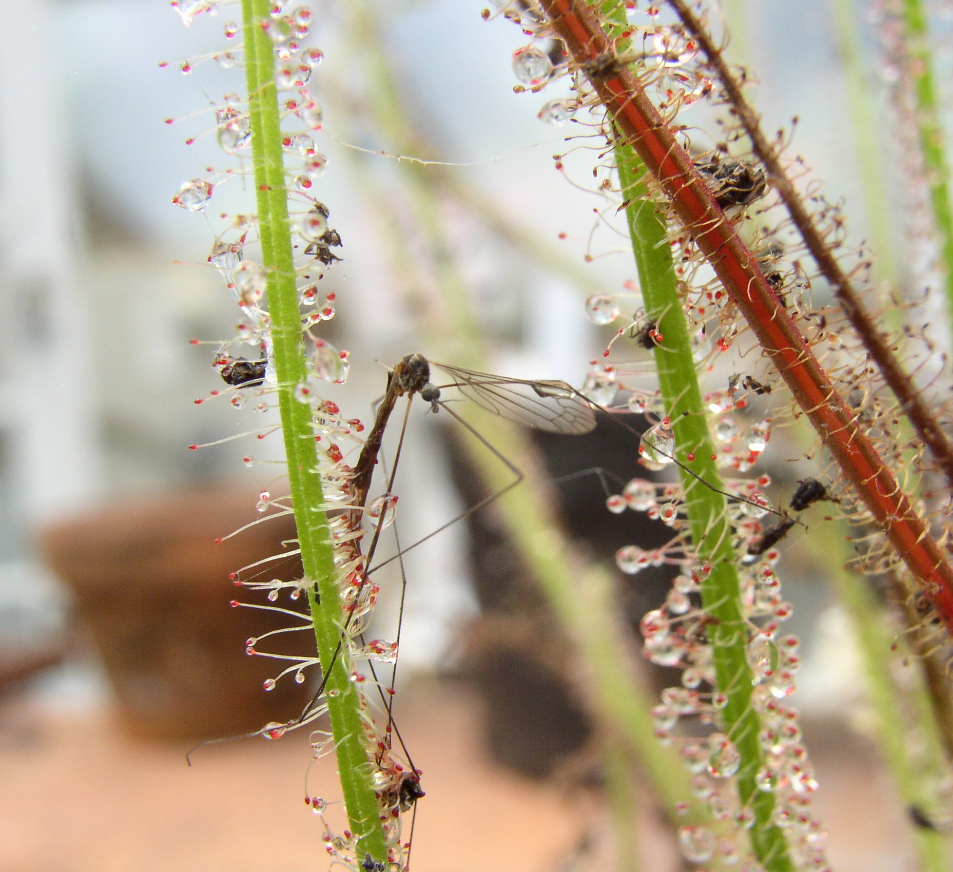 Limonia (crane fly) trapped by Drosera filiformis. Size: 12 mm. Pennypack Restoration Trust, Montgomery County, Pennsylvania, USA.